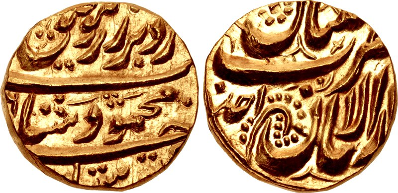 AFGHANISTAN, Durrani Shahs. Mahmud Shah. First reign, AH 1215-1218 / AD 1800-1803. AV Mohur (19mm, 11.09 g, 5h). Dar al-Aman Multan mint. Dually dated AH [121]6 and RY ahd (25 July AD 1801-3 May AD 1802). SICA 9, –; Album 3113; KM 668; cf. Friedberg 8. Superb EF, lustrous.